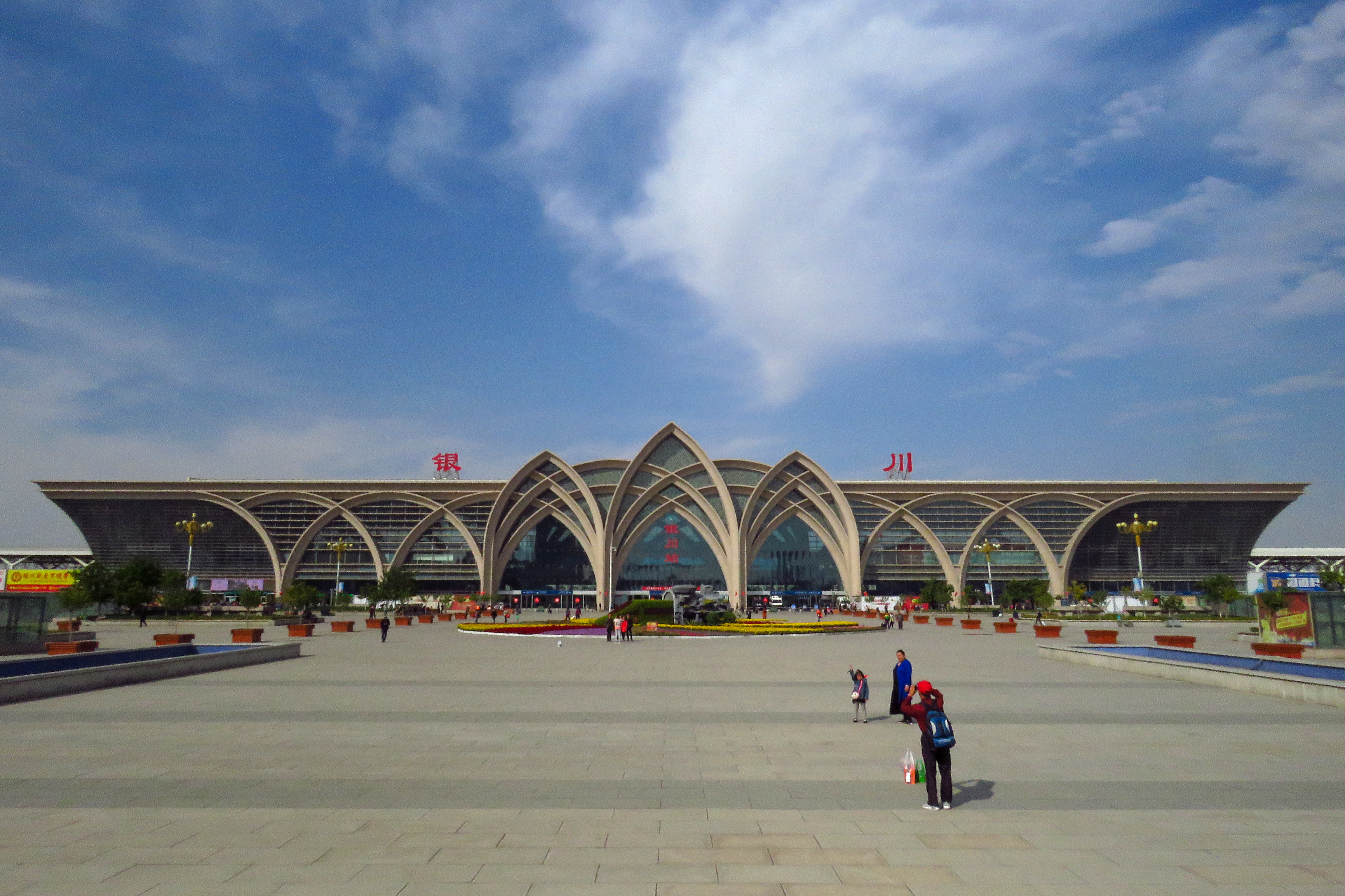 Quite a massive "silk road hub" compared to the old west square...